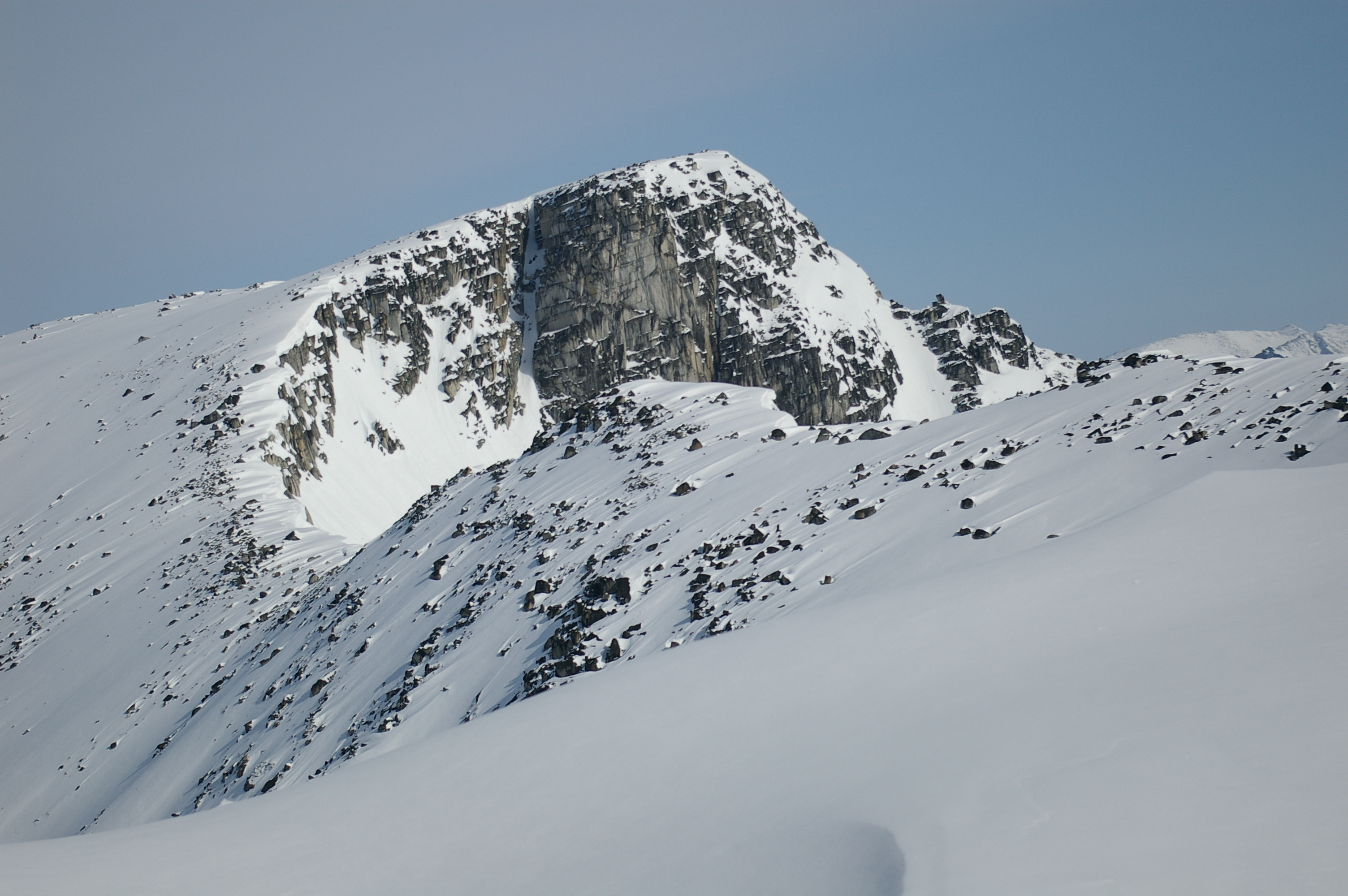 Mount Aragorn (2,435m) viewed from Mount Gandalf